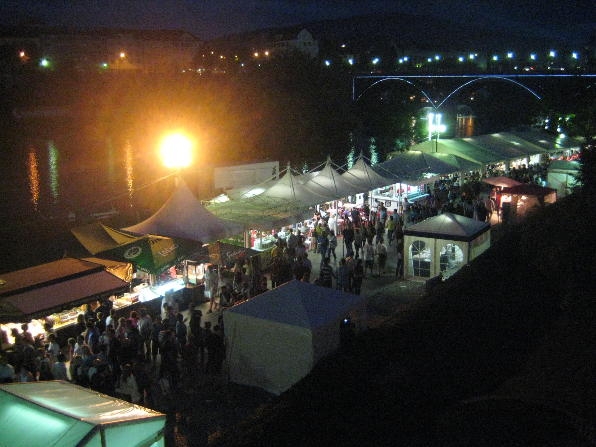 Lent Festival, Maribor, Slovenia